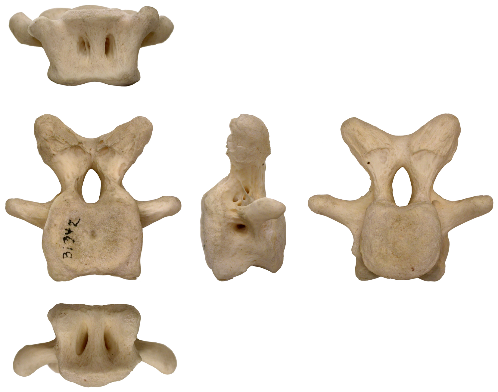 The caudal vertebrae of ostriches are highly pneumatic. This mid-caudal vertebra of an ostrich (Struthio camelus), LACM Bj342, is shown in dorsal view (top), anterior, left lateral, and posterior views (middle, left to right), and ventral view (bottom). The vertebra is approximately 5cm wide across the transverse processes. Note the pneumatic foramina on the dorsal, ventral, and lateral sides of the vertebra.